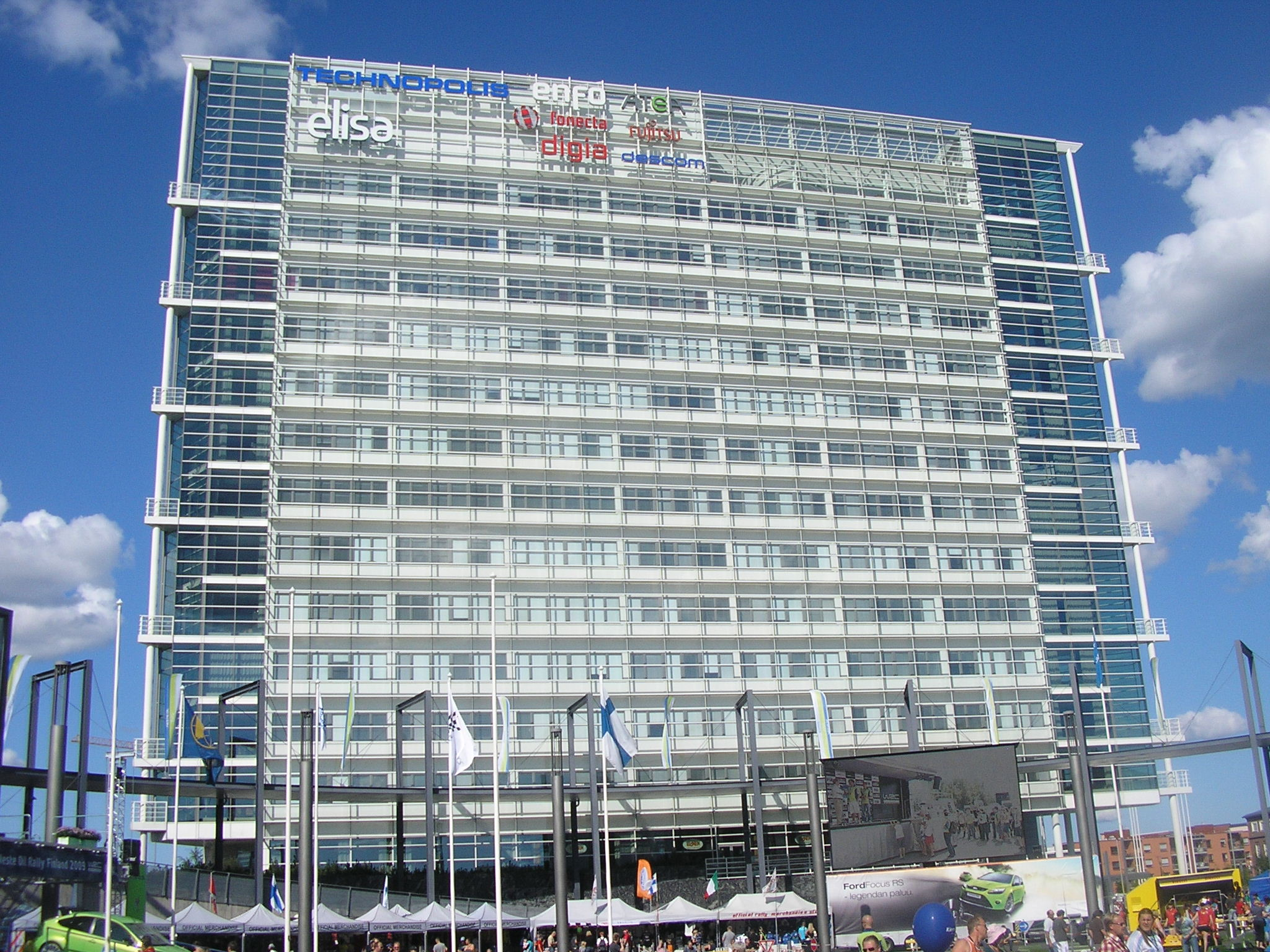 Innova, the tallest building in Jyväskylä